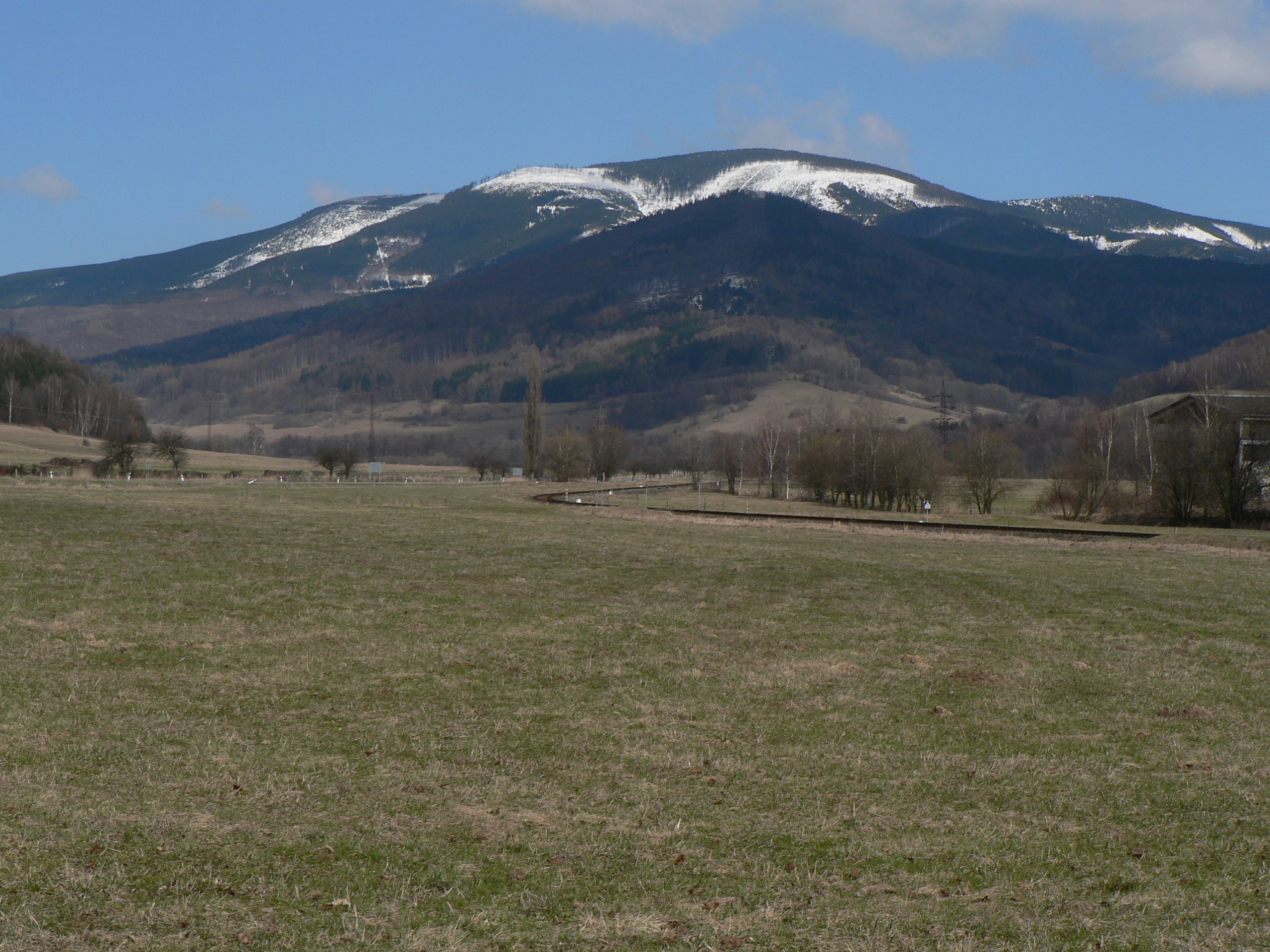 Mravenecnik from Velke Losiny.